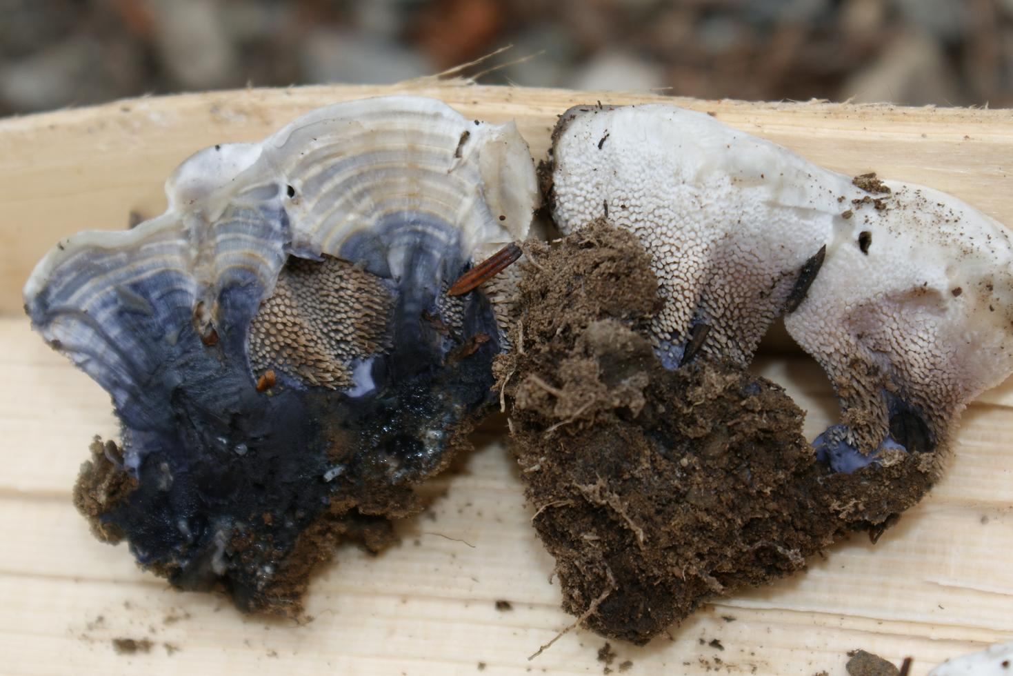 Fruit bodies of the fungus Hydnellum suaveolens Karsten. Specimens photographed in Terriault Lake, Montana, USA.